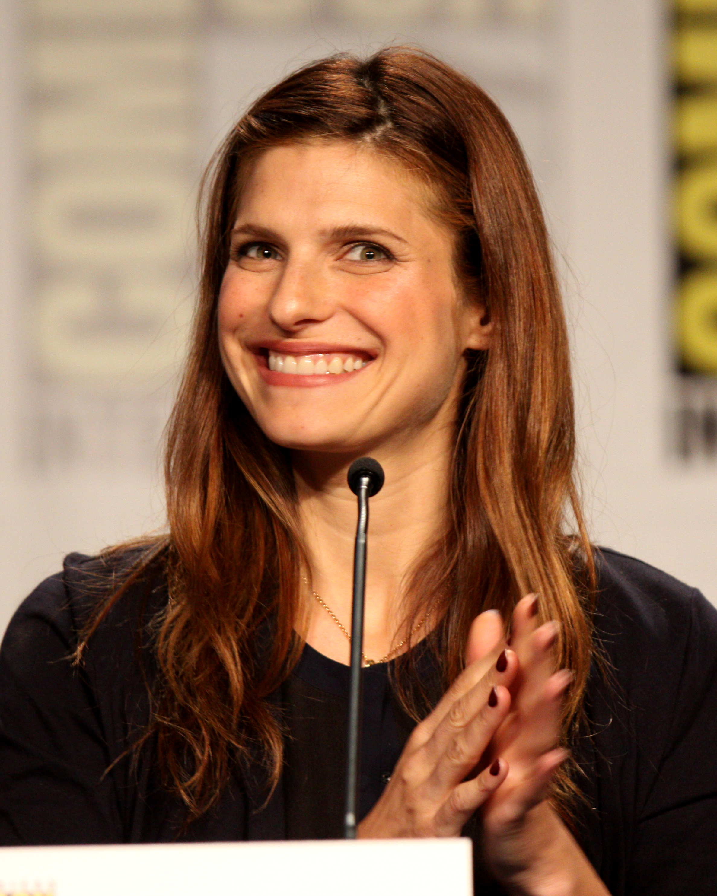 Lake Bell at the 2011 Comic Con in San Diego